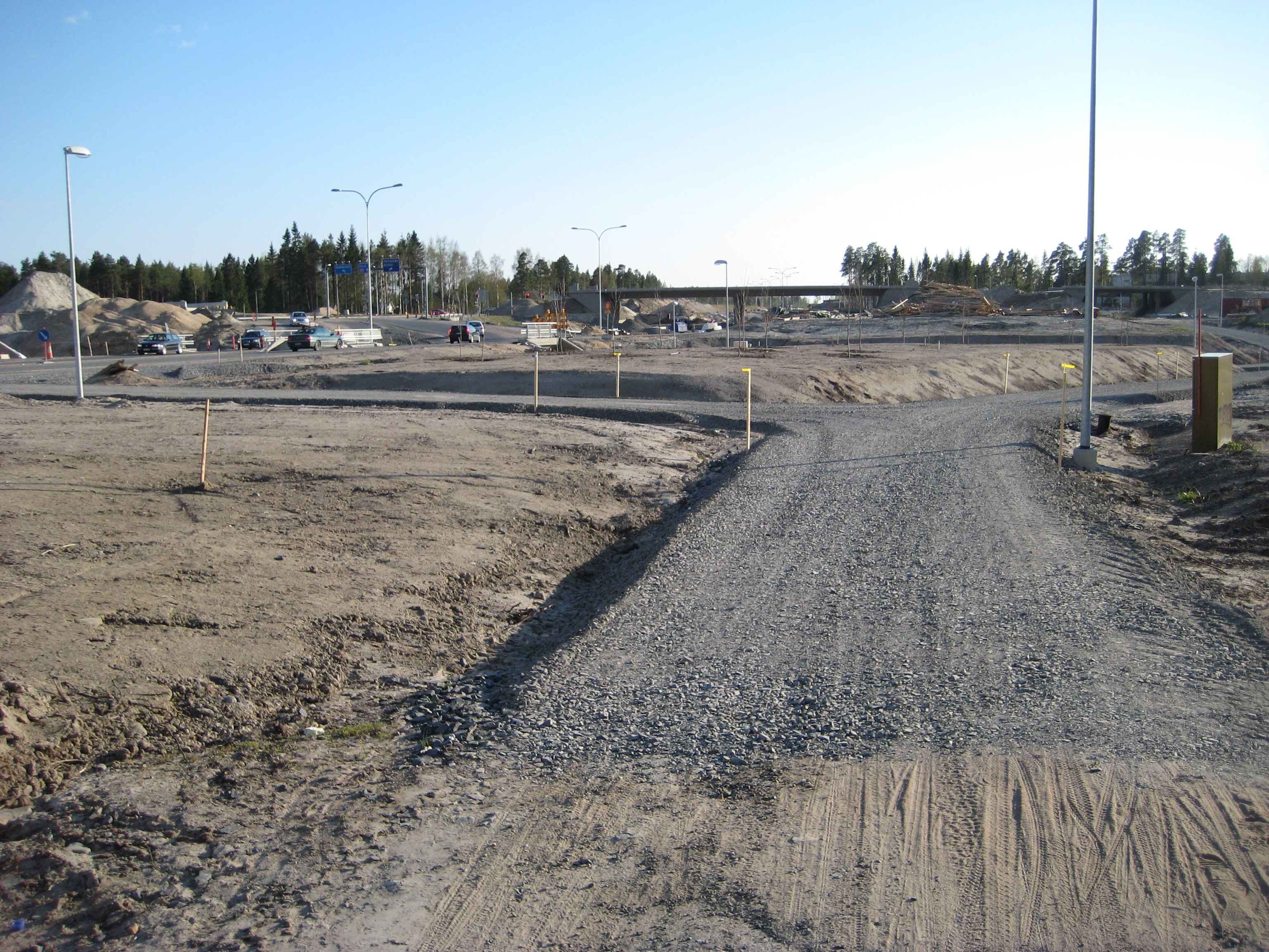 The construction site of the national road 20 and Raitotie road at the border of Korvensuora and Rusko in Oulu, Finland, looking south-west (towards Oulu). The work is due to be completed by October 2008.